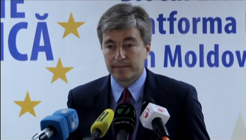 Moldovan politician Eugen Carpov